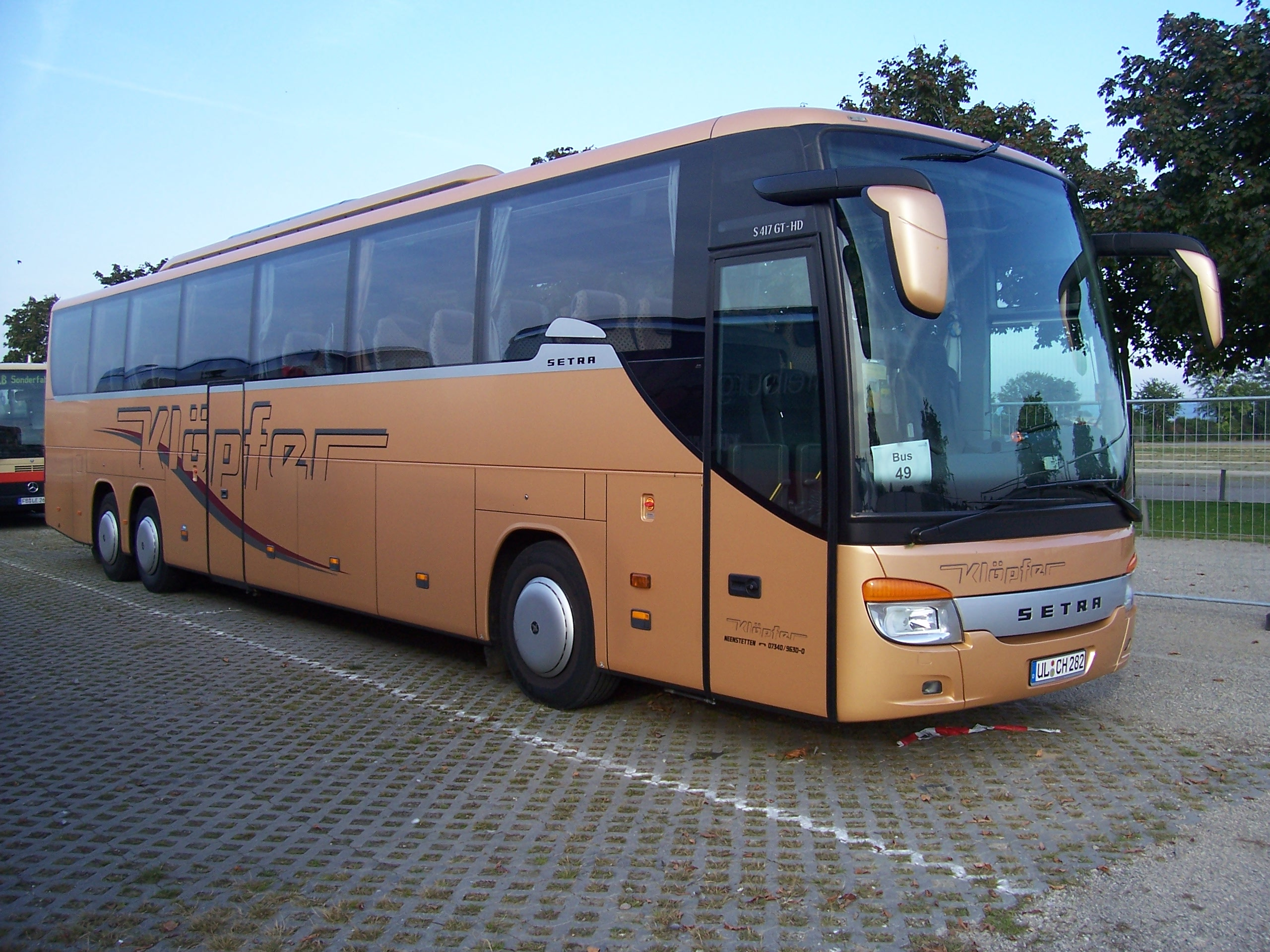 Setra S 417 GT-HD coach (reg. UL-CH 282) in Mannheim, Germany. Built 2006, Omnibus Klöpfer e.K. from Neenstetten operator.